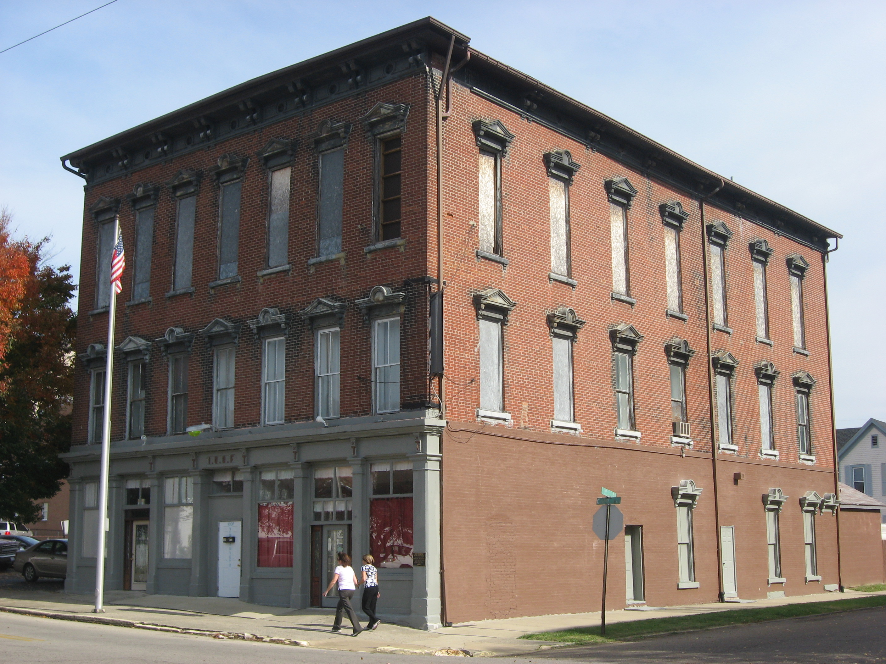 Front and southern side of the Portsmouth Odd Fellows Hall, located at 500-506 Court Street in Portsmouth, Ohio, United States. Built in 1871, it is listed on the National Register of Historic Places.